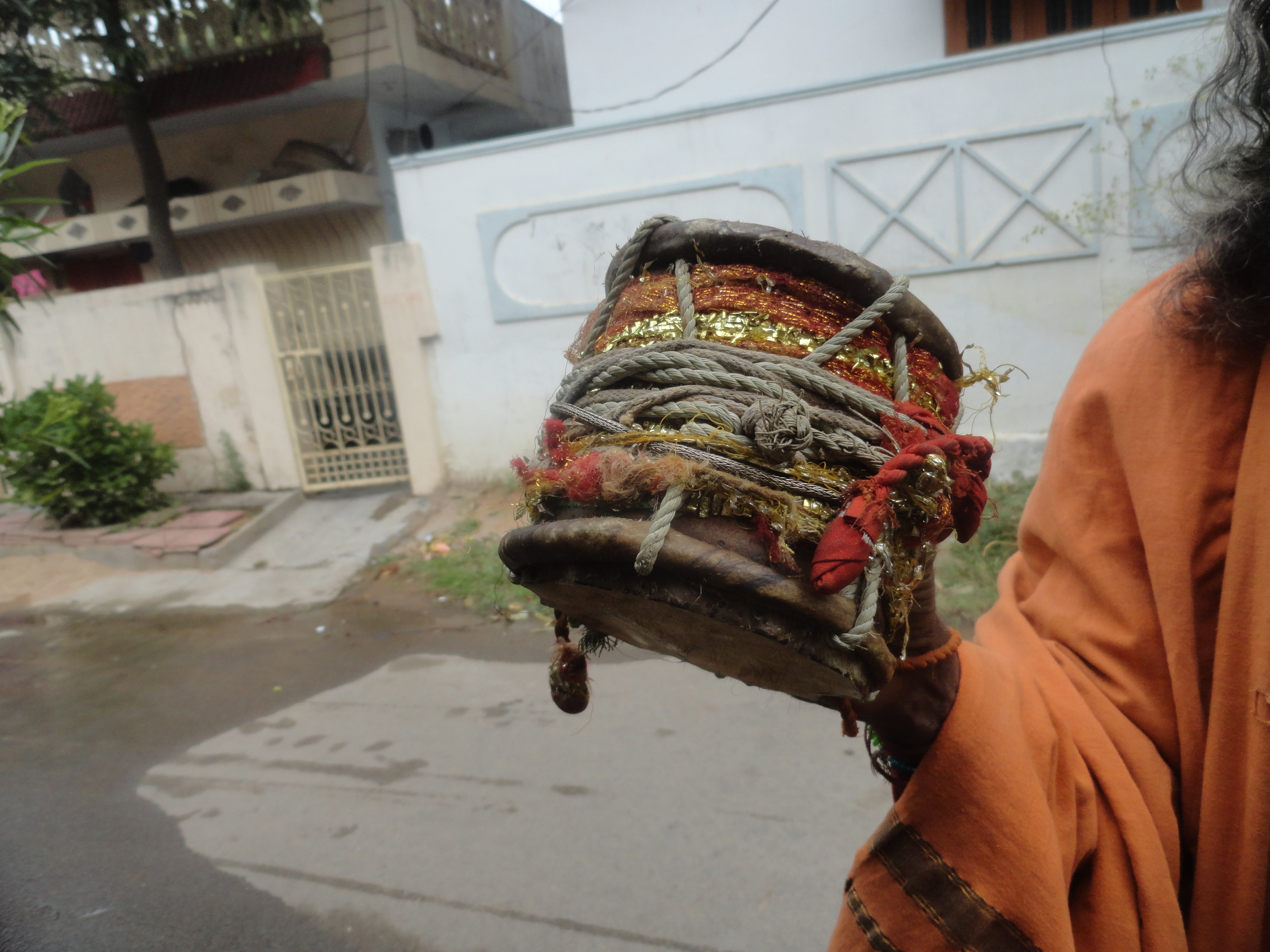 small drum in the hands